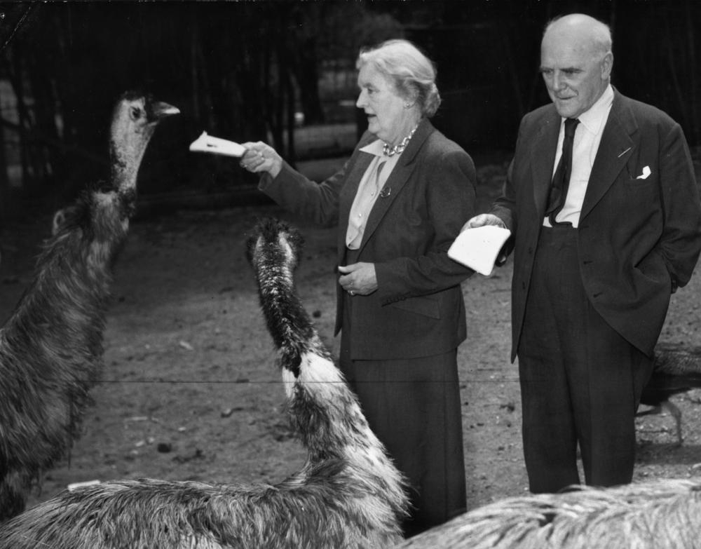 Creator: Unidentified Location: Brisbane, Queensland Description: Sir Lewis Thomas Casson (1875-1969) was a British actor and theatre director. His wife, Dame Sybil Thorndike (1882-1976) was also a British actress. View this page at the State Library of Queensland: Information about State Library of Queensland?s collection